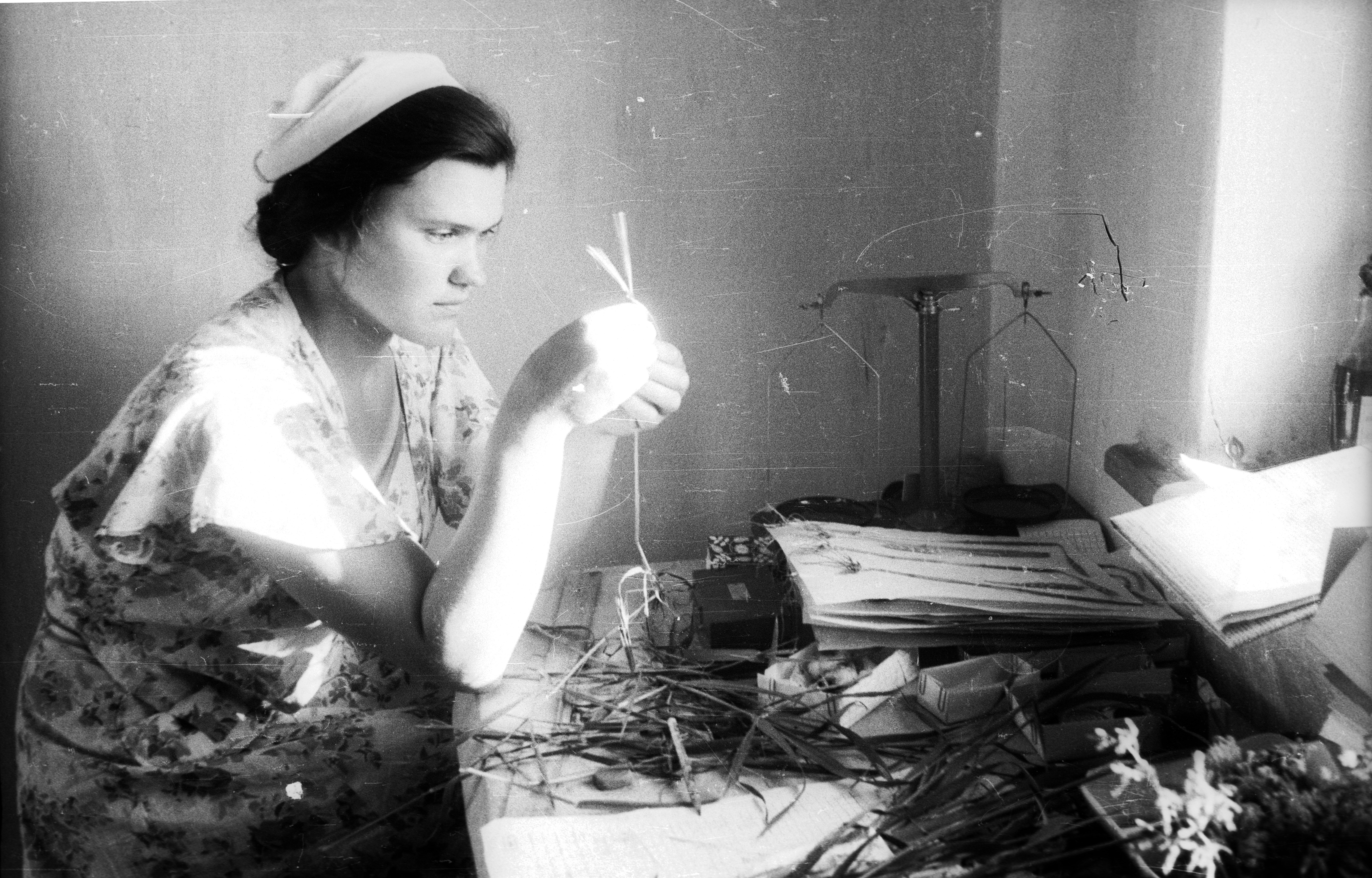 Agrometeorologist at work in the Nizhny Novgorod region (1953).